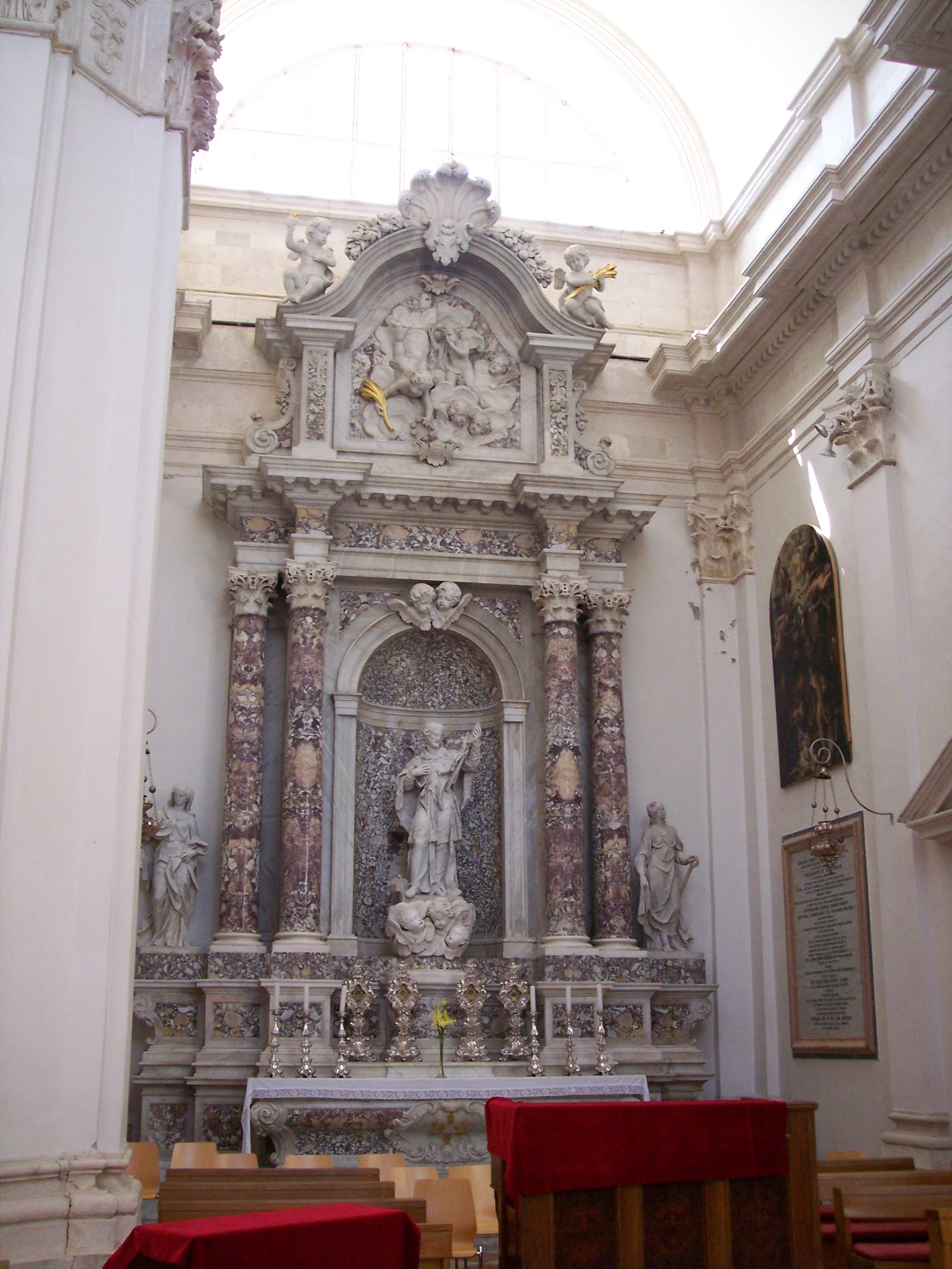 Cathedral of the Assumption of the Virgin Mary (or Velika Gospa) in Dubrovnik (Croatia)